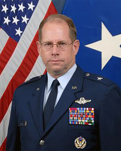 William Burks